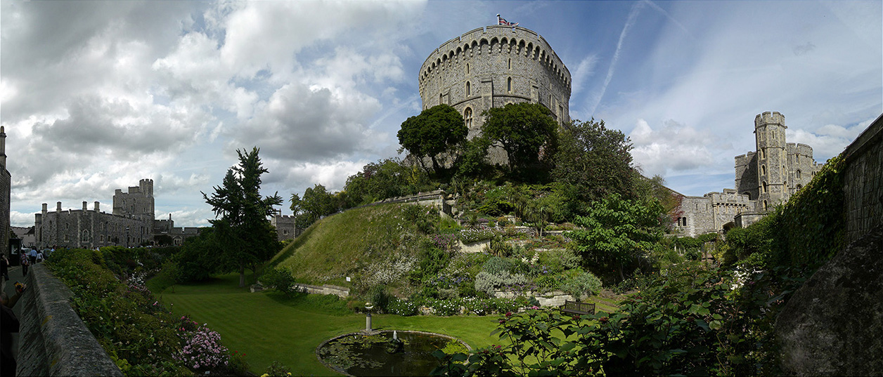 Windsor Castle - Round Tower (Panorama from 15 photos)